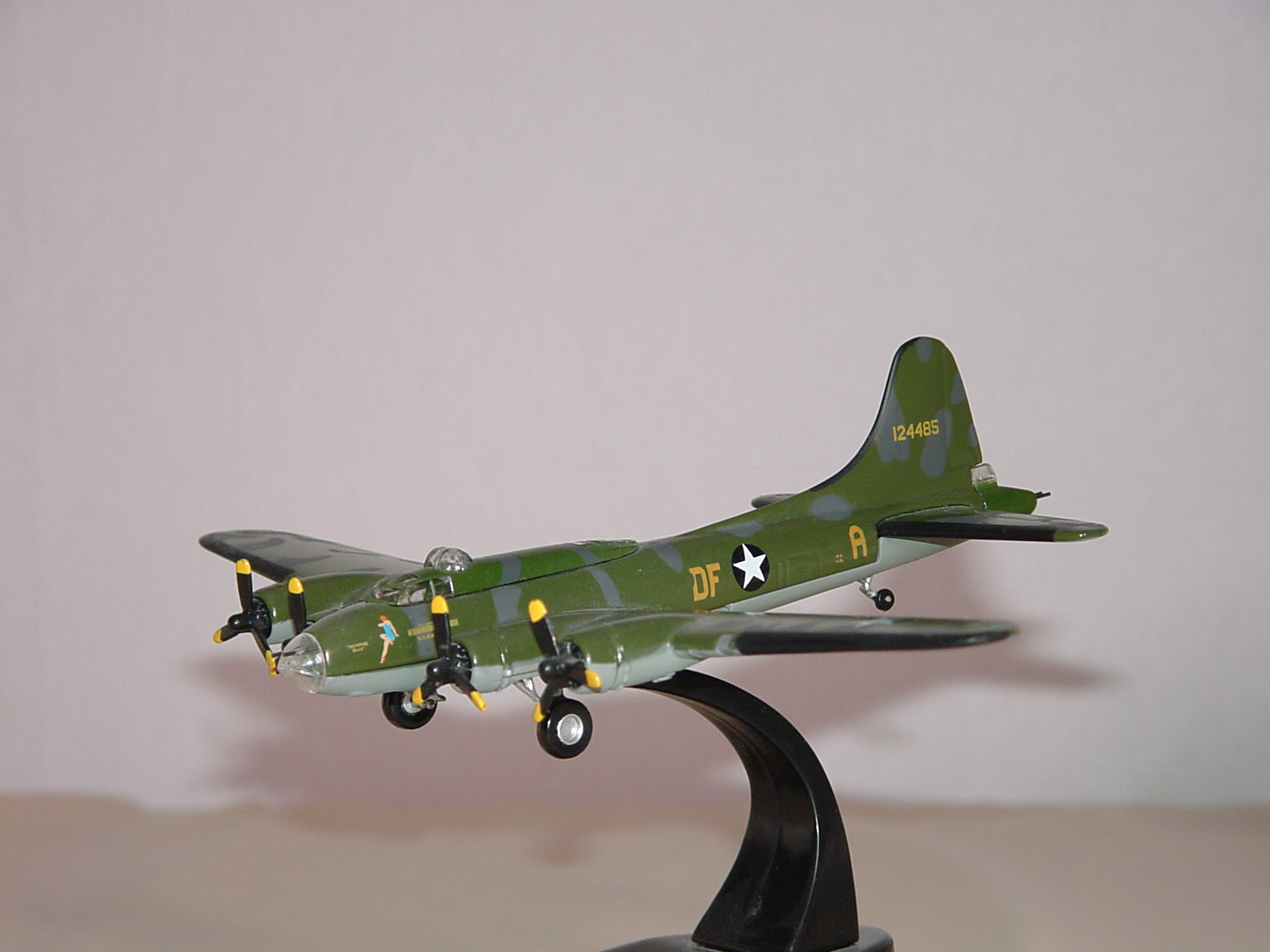 Schaalmodel van een B-17 Flying FortressScale model of a B-17 Flying Fortress